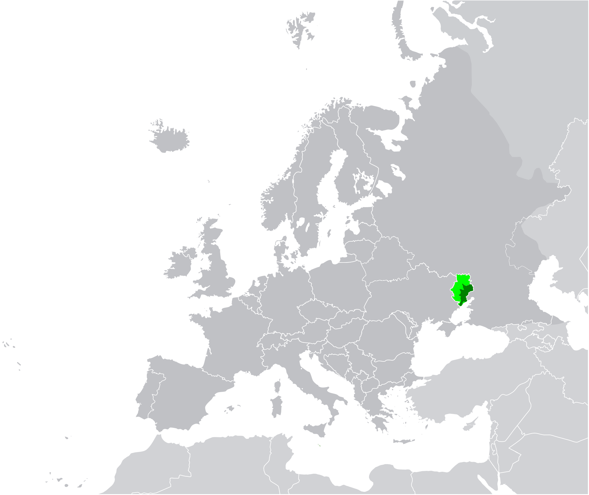 Map of "Novorossiya" in Ukraine (dark green is territory controlled by separatist self-proclaimed republics)